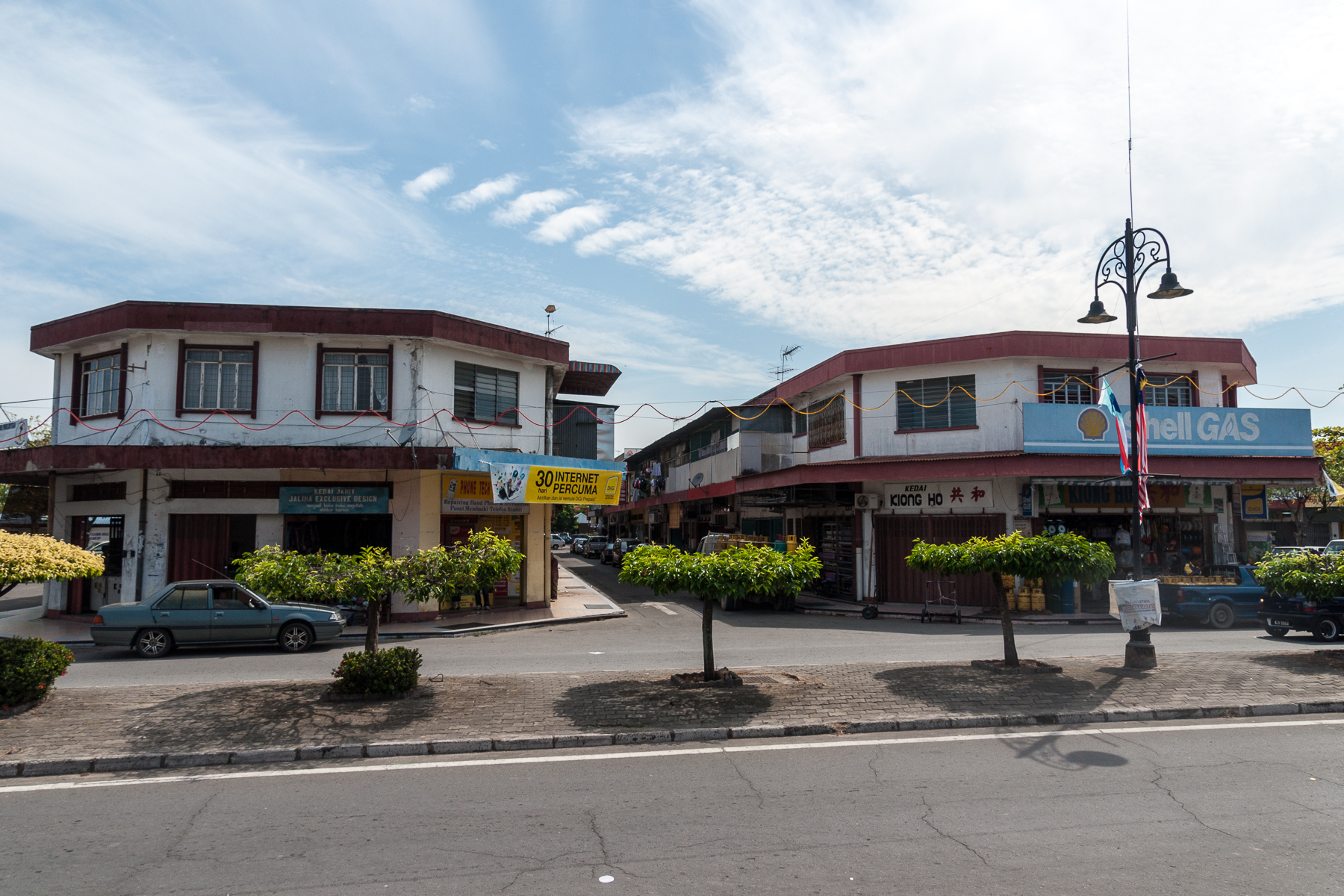 Tuaran, Sabah: Old houses in Tuaran)